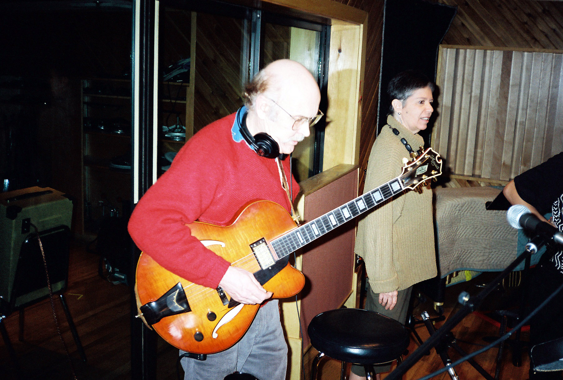 Jim Hall and his wife Jane